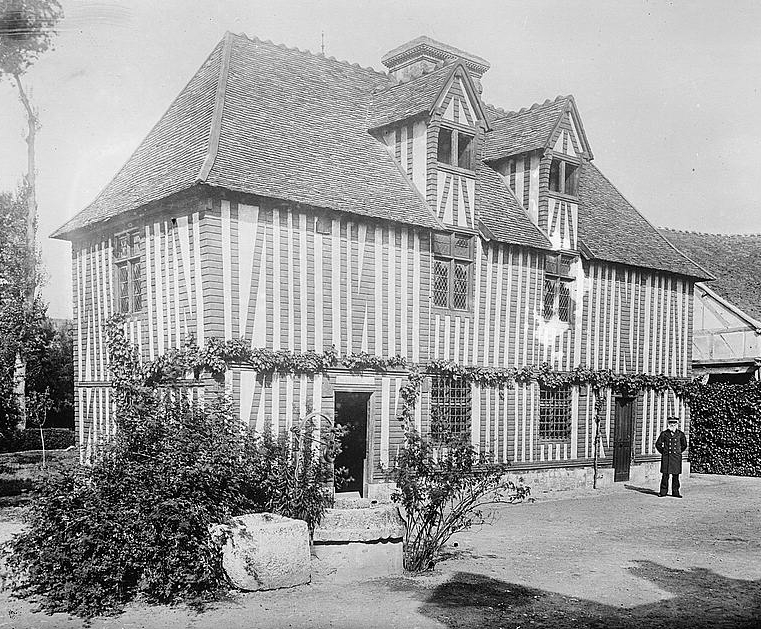 House associated with French playwright Pierre Corneille (1606-1684) in Petit Couronne, France, near Rouen. It became a museum in 1879.